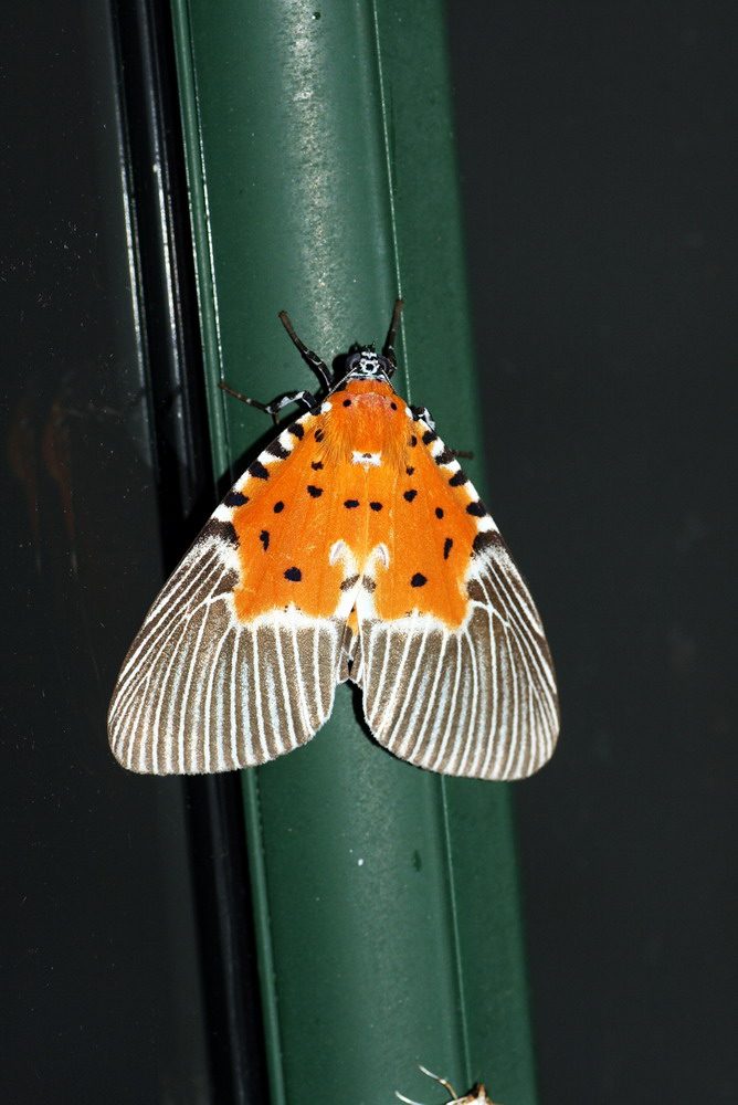 Malaysia, Fraser Hill, March 2009